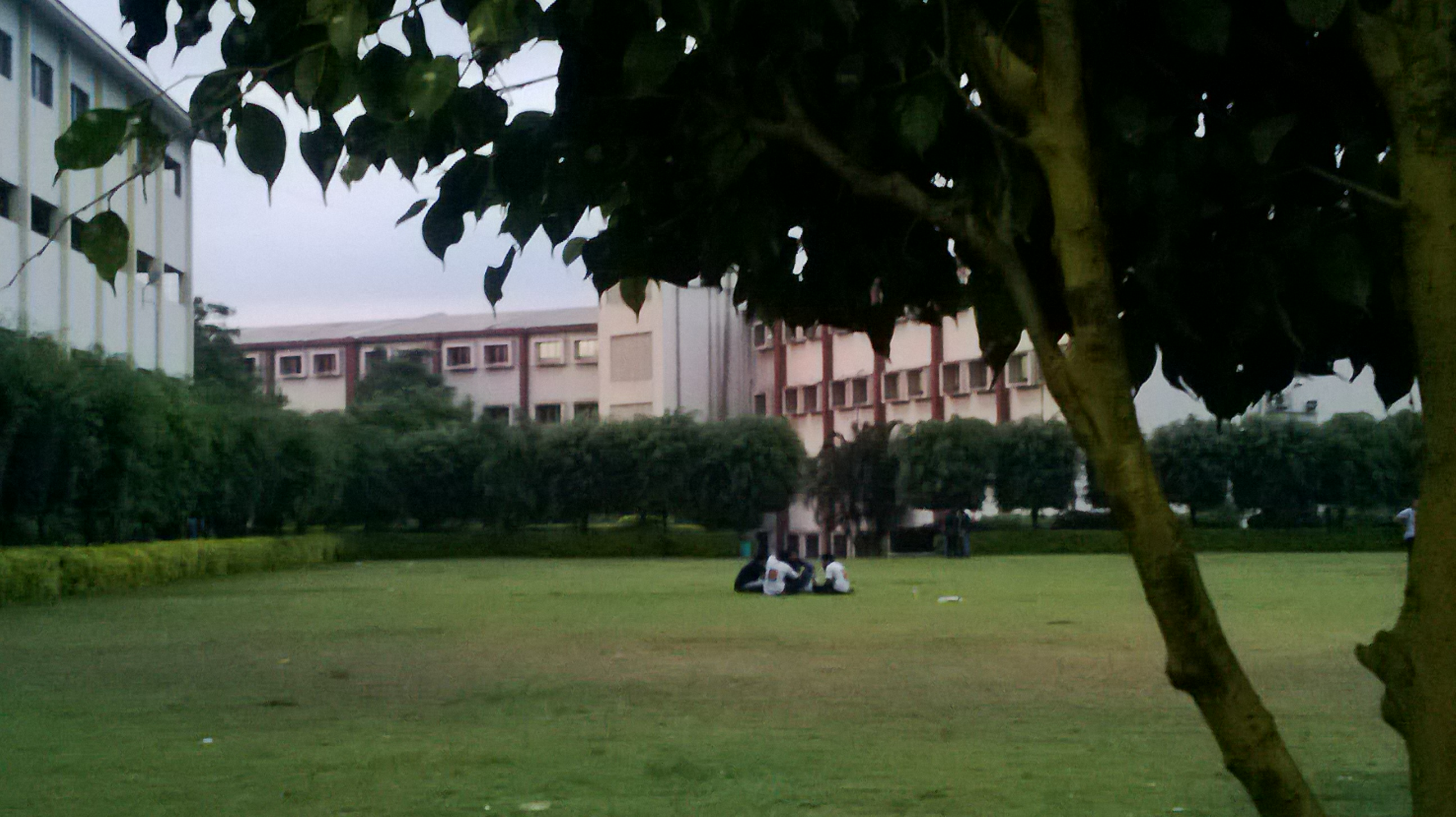 SAE campus